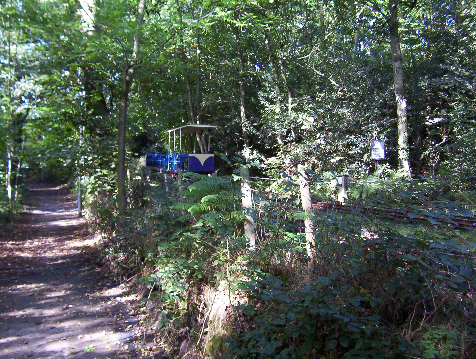 A tram and tracks of Shipley Glen Tramway also showing the footpath that runs parallel to the tramway.